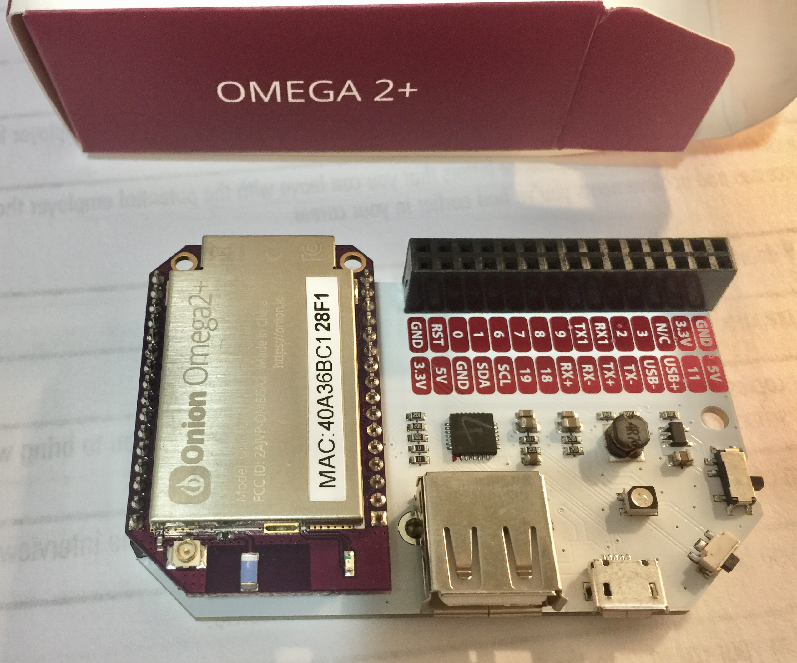 Omega2+ Embedded Linux on its expansion dock